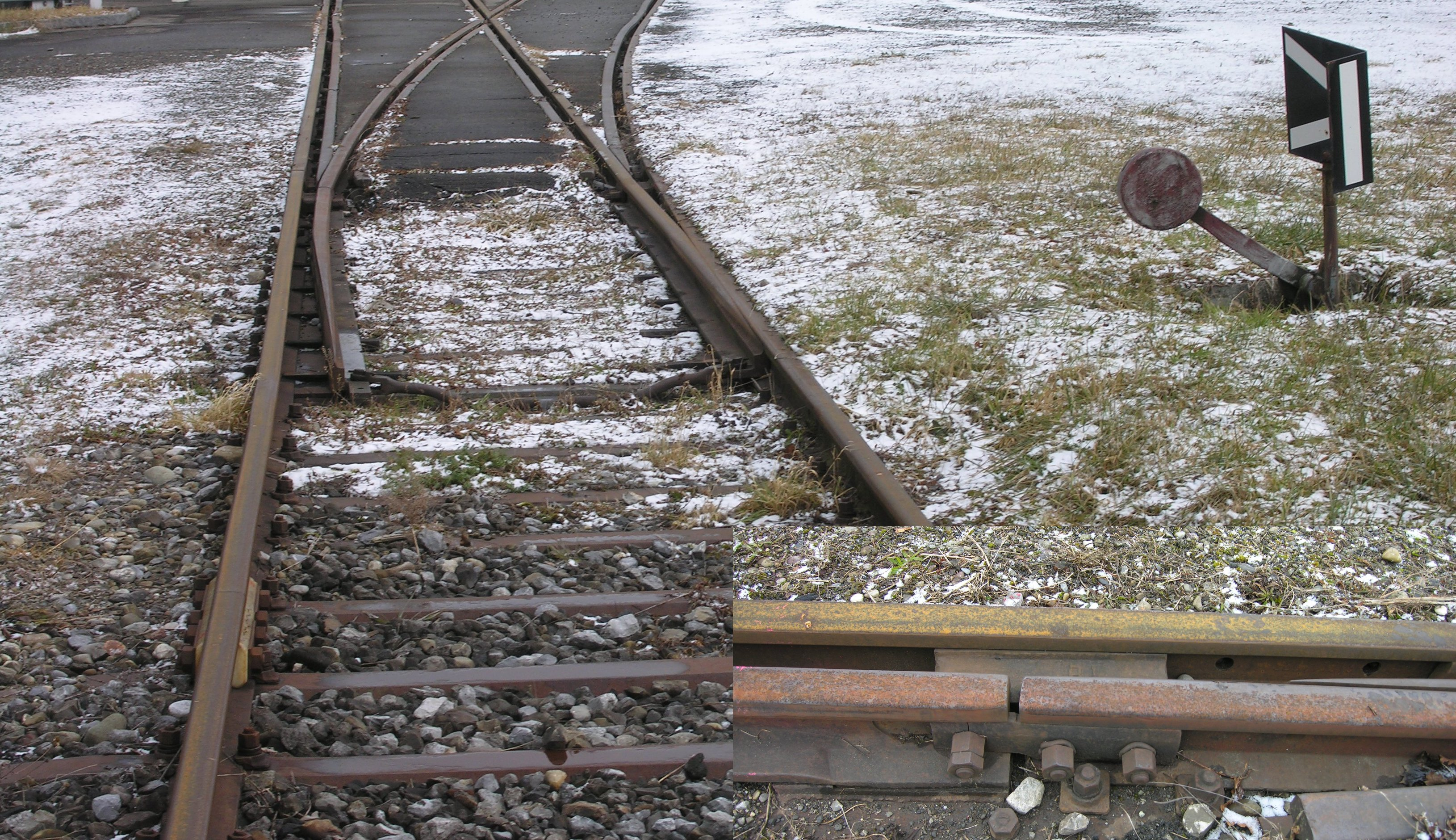 The railroad switch with joints, designed for manual operation. The enlarged part (right bottom corner) show the joint construction. Military railway near Dubendorf, Switzerland. Photo by Audrius Meskauskas. Audriusa